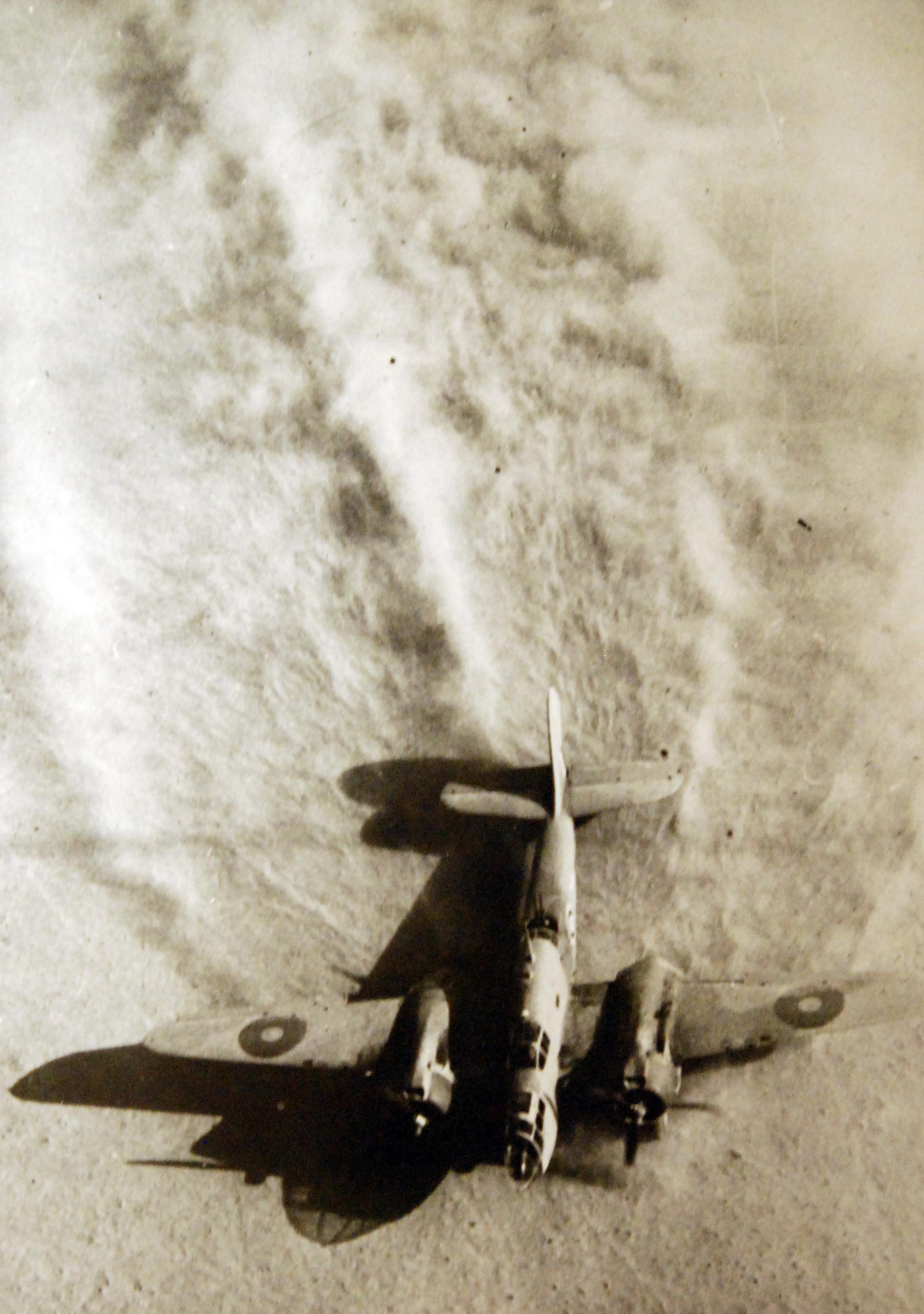 Royal Air Force Baltimore bomber taking off to attack Rommel’s supply lines in the Western Desert